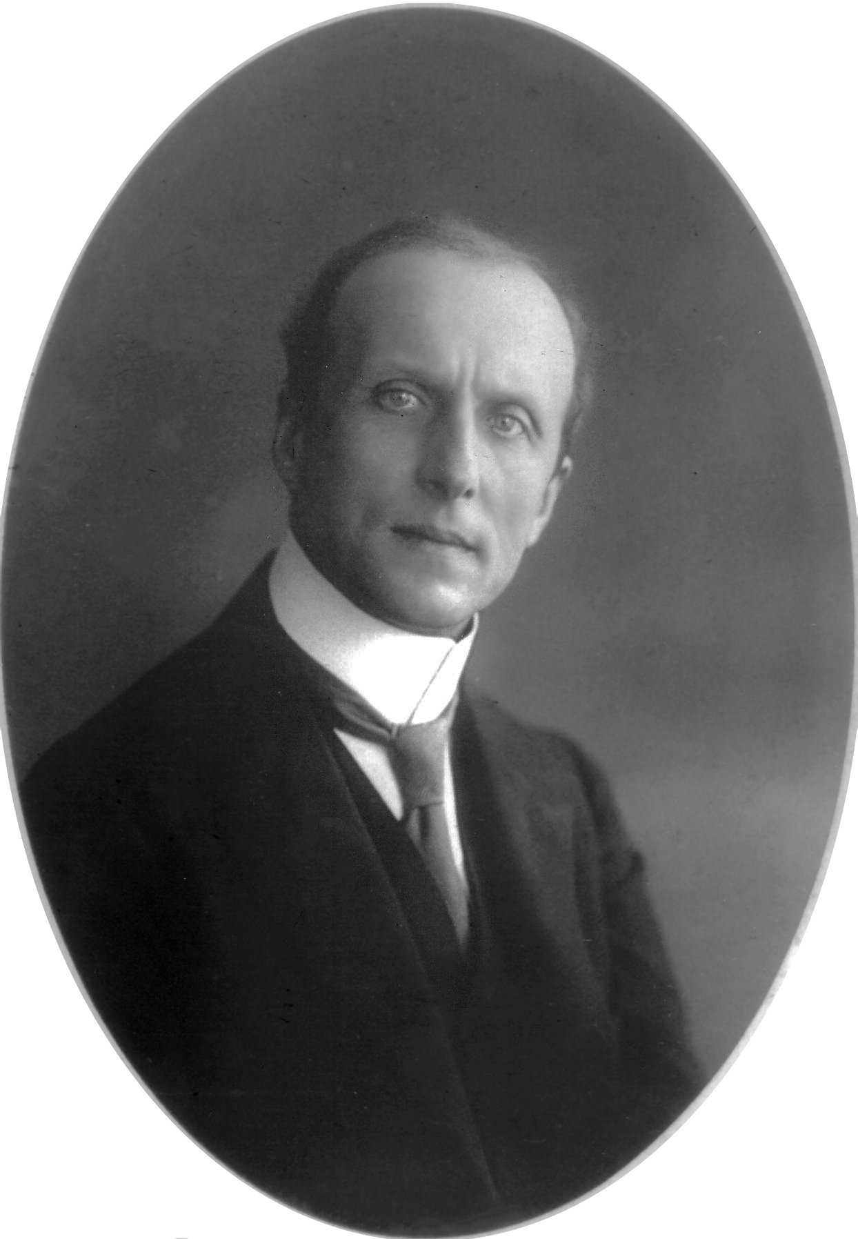 Greek mathematician Constantin Caratheodory (Κωνσταντίνος Καραθεοδωρής) (1873-1950)